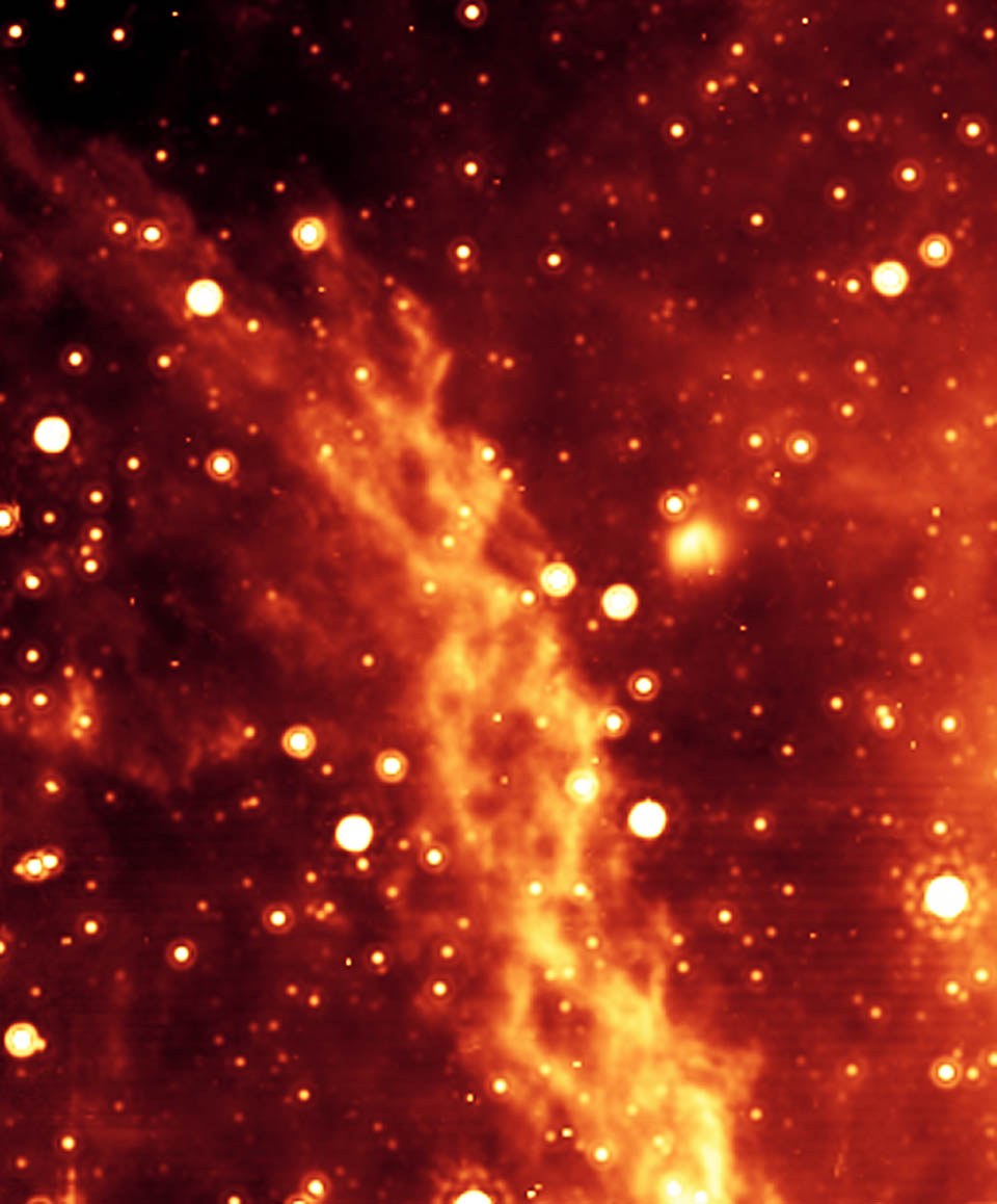 The double helix nebula. The spots are infrared-luminous stars, mostly red giants and red supergiants. Many other stars are present in this region, but are too dim to appear even in this sensitive infrared image. The double helix nebula is approximately 300 light-years from the enormous black hole at the center of the Milky Way. (The Earth is more than 25,000 light-years from the black hole at the galactic center.) This false-color image was taken by the Multiband Imaging Photometer for Spitzer (MIPS).